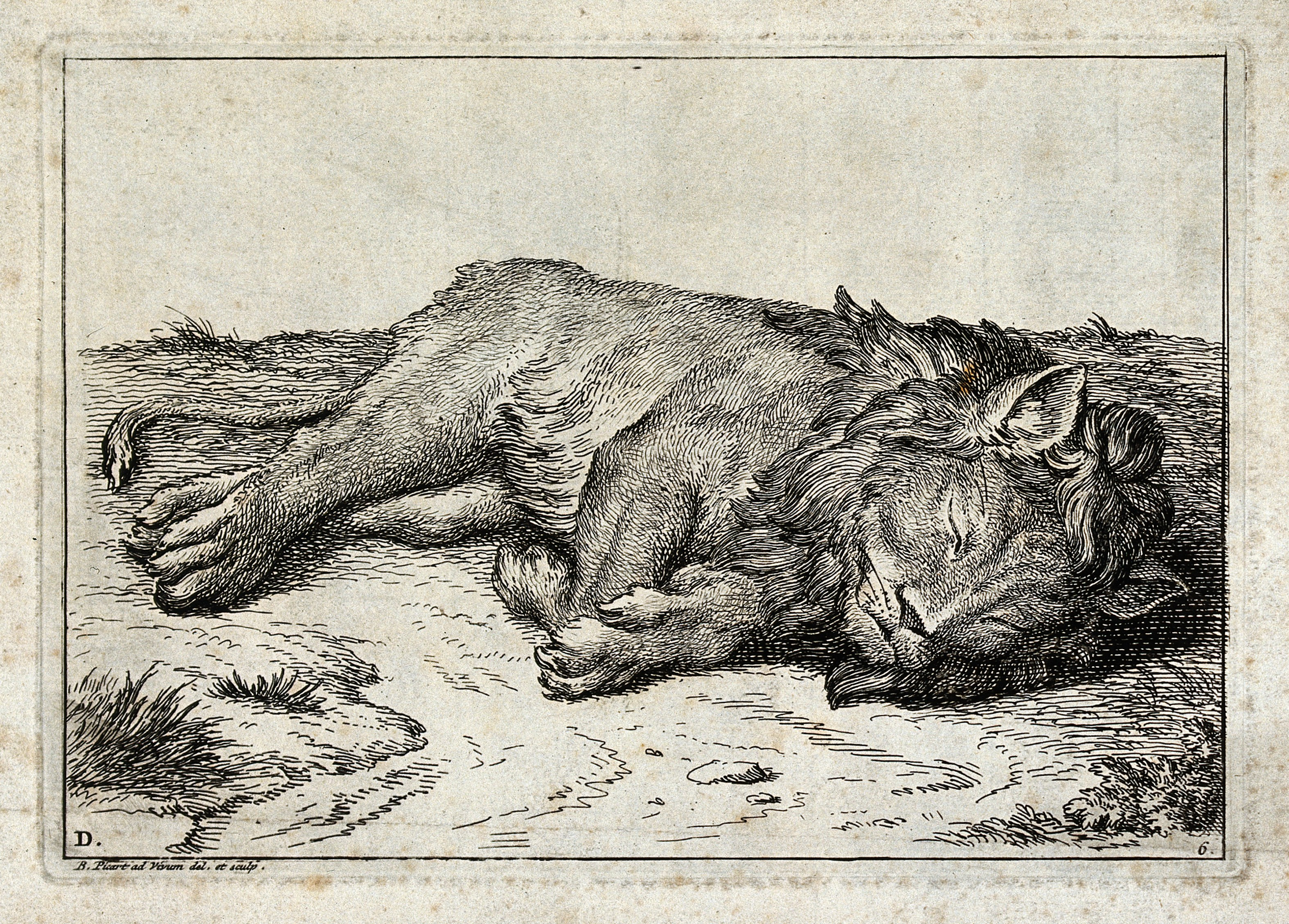 A sleeping lion. Etching by B Picart after himself. Iconographic Collections Keywords: Bernard Picart